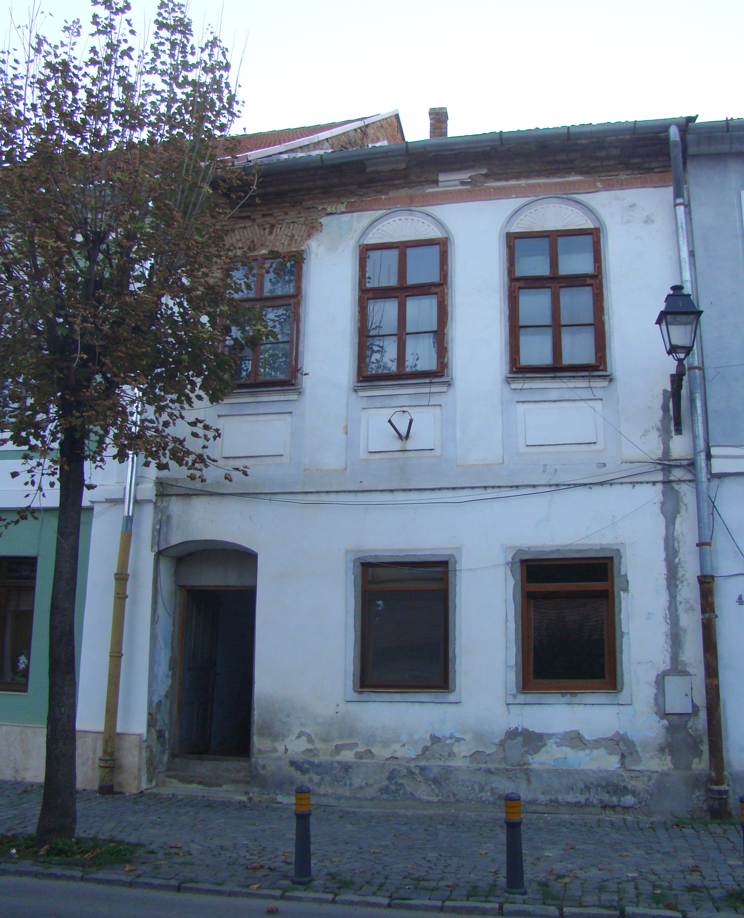 House, historic monument, in Bistrița, Nicolae Titulescu street 44